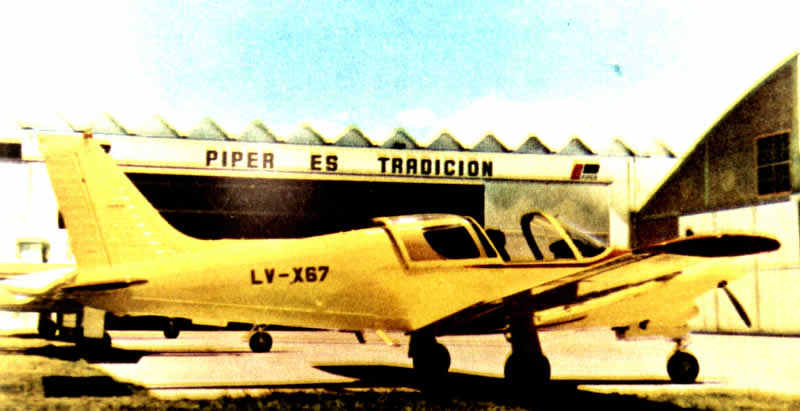 Argentine aircraft Piper Chincul PA-28 Arrow